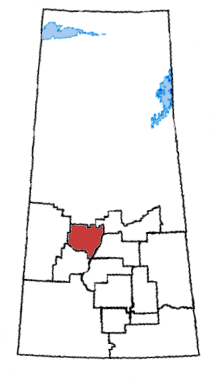 Map of the Saskatoon—Wanuskewin electoral district. Based on Earl Andrew's maps, created by SimonP.